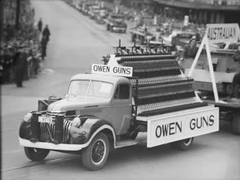 AWM caption : Christmas parade in Sydney, 1942 A display of Owen guns, invented and manufactured in Australia, feature in a procession through the streets of Sydney to recognise the contribution war workers were making to the war effort. The procession included almost 400 tanks, guns, fighting vehicles, and lorries carrying the products of munition factories.